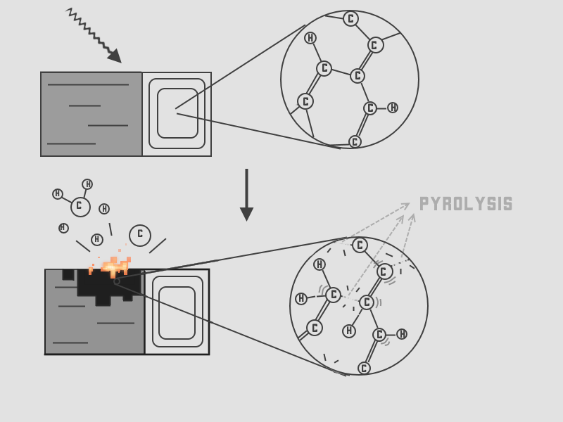 simplified Pyrolysis on burning wood